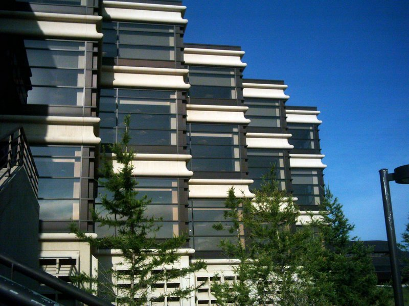 The LINC building at the University of Lethbridge. This is where the U of L library is located.